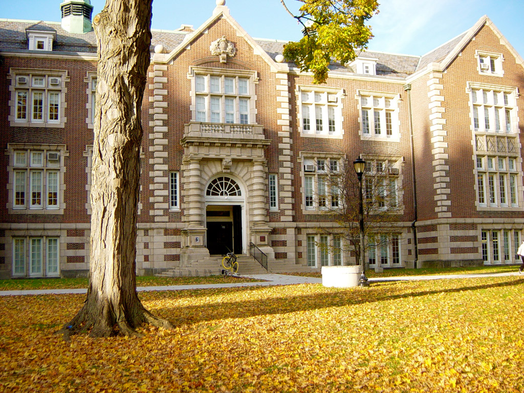 Rockefeller Hall at Vassar College in Poughkeepsie, New York